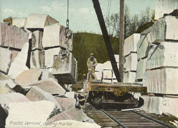 Loading marble, Proctor, Vermont; from a 1908 postcard published by the Hugh C. Leighton Company, Portland, Maine.